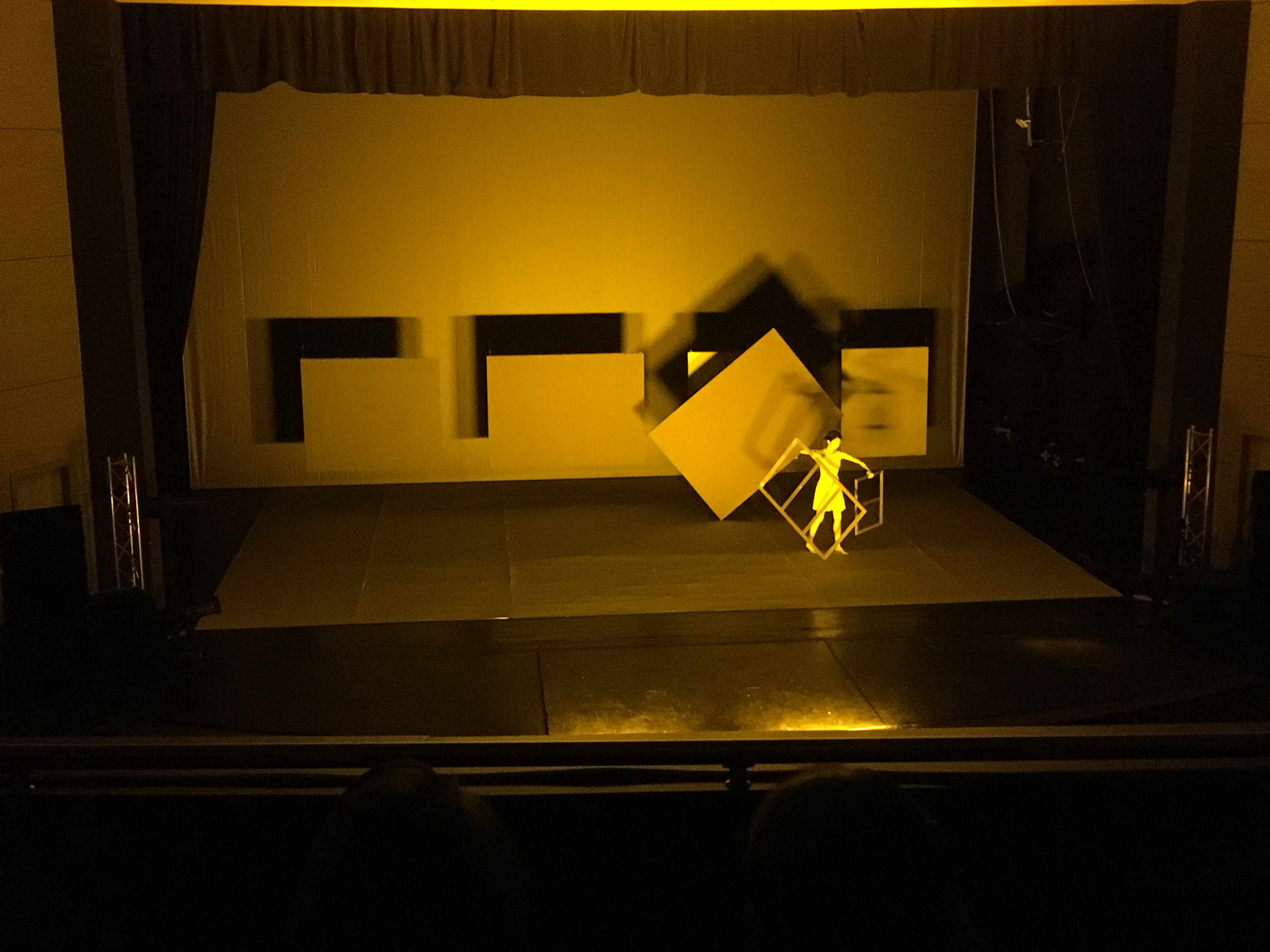 Shiro_Takatani and Chroma team - Bulgaria, plovdiv, October 2017, One Dance Week